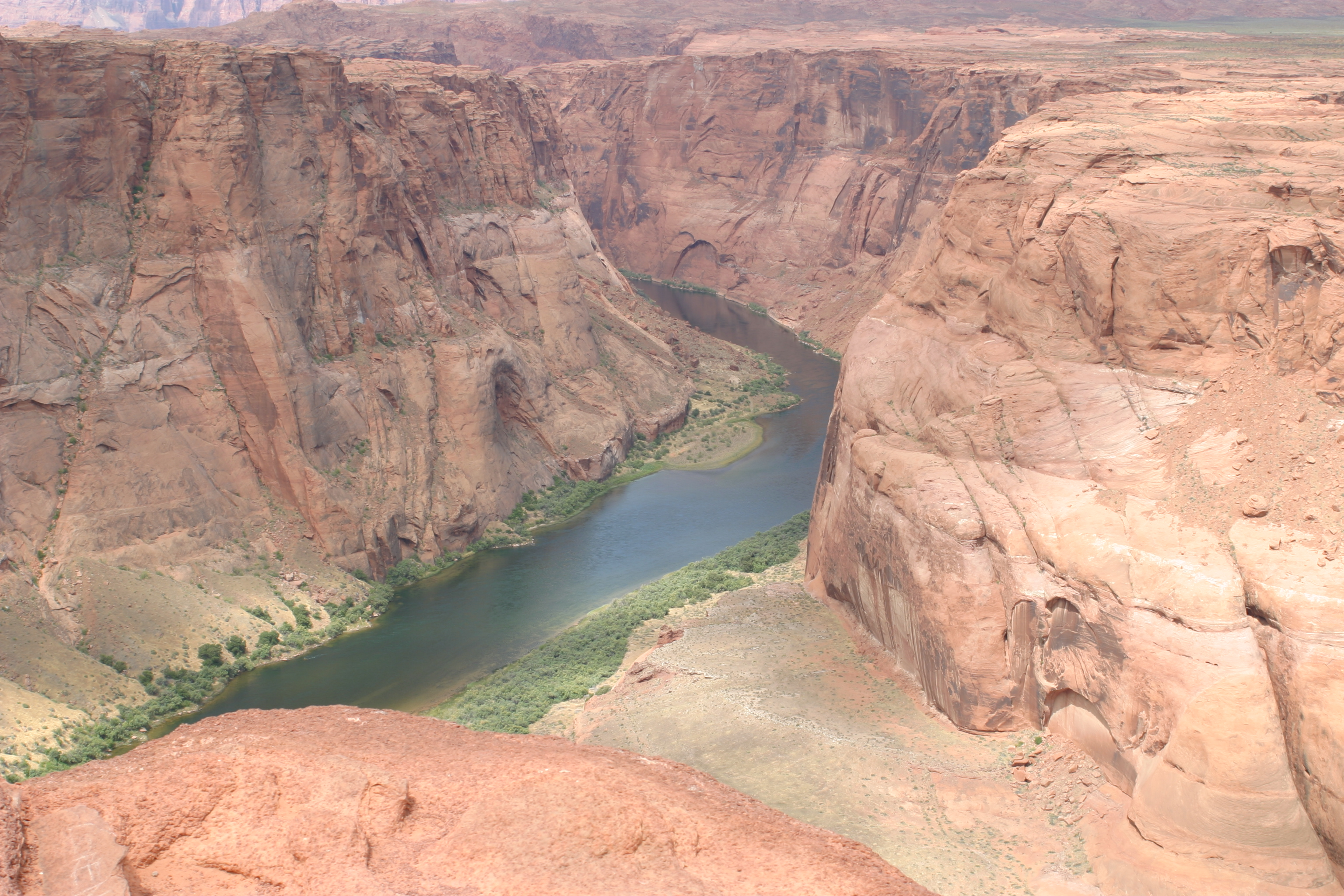 The Colorado River near Page, in Arizona, USA.